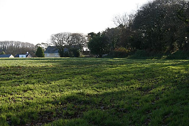 Field at Playing Place. This field has been identified as the site of the plain-an-gwarry that gave the village of Playing Place its name. Playing place being the English translation from the Cornish/Kernewek plain-an-gwarry. A plain-an-gwarry was a large circular amphitheatre surrounded by stone faced earth banks or dry stone walls about 2 metres high. They were used for many purposes similar to a community centre of today. The use that they mostly associated with is the performance of miracle plays that were popular in mediaeval times. It has been suggested that the recently discovered sixteenth century Cornish language manuscript Beunans Ke (The Life of St Kea) was written to be performed here. There are two plain-an-gwarries in Cornwall that have survived almost complete. One here 69285 and one here 164401